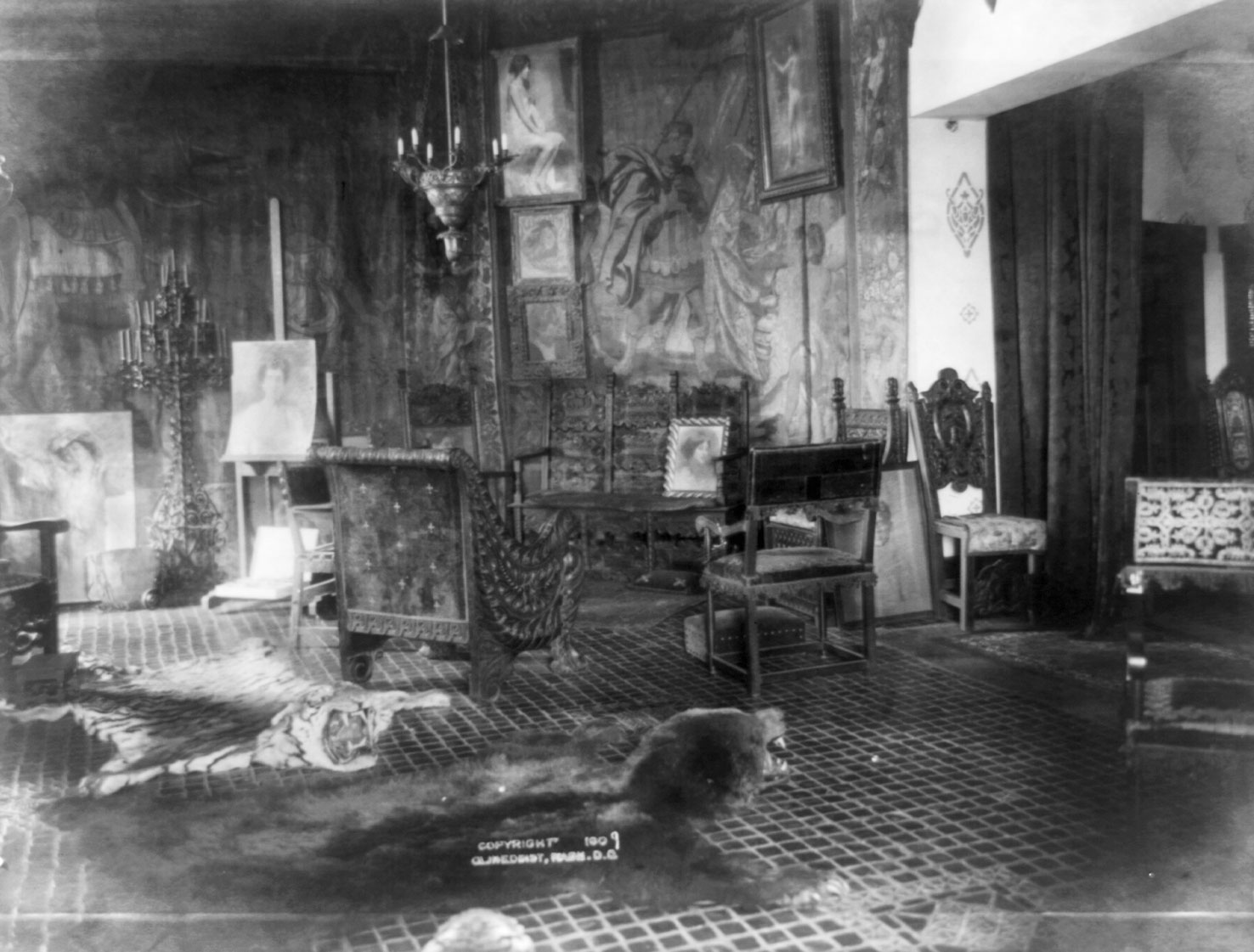 Interior of Alice Pike Barney's Studio House, Washington, D.C.